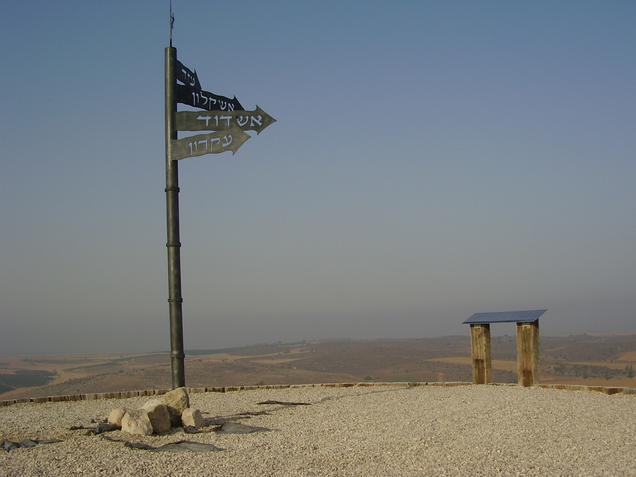 tel-zafit